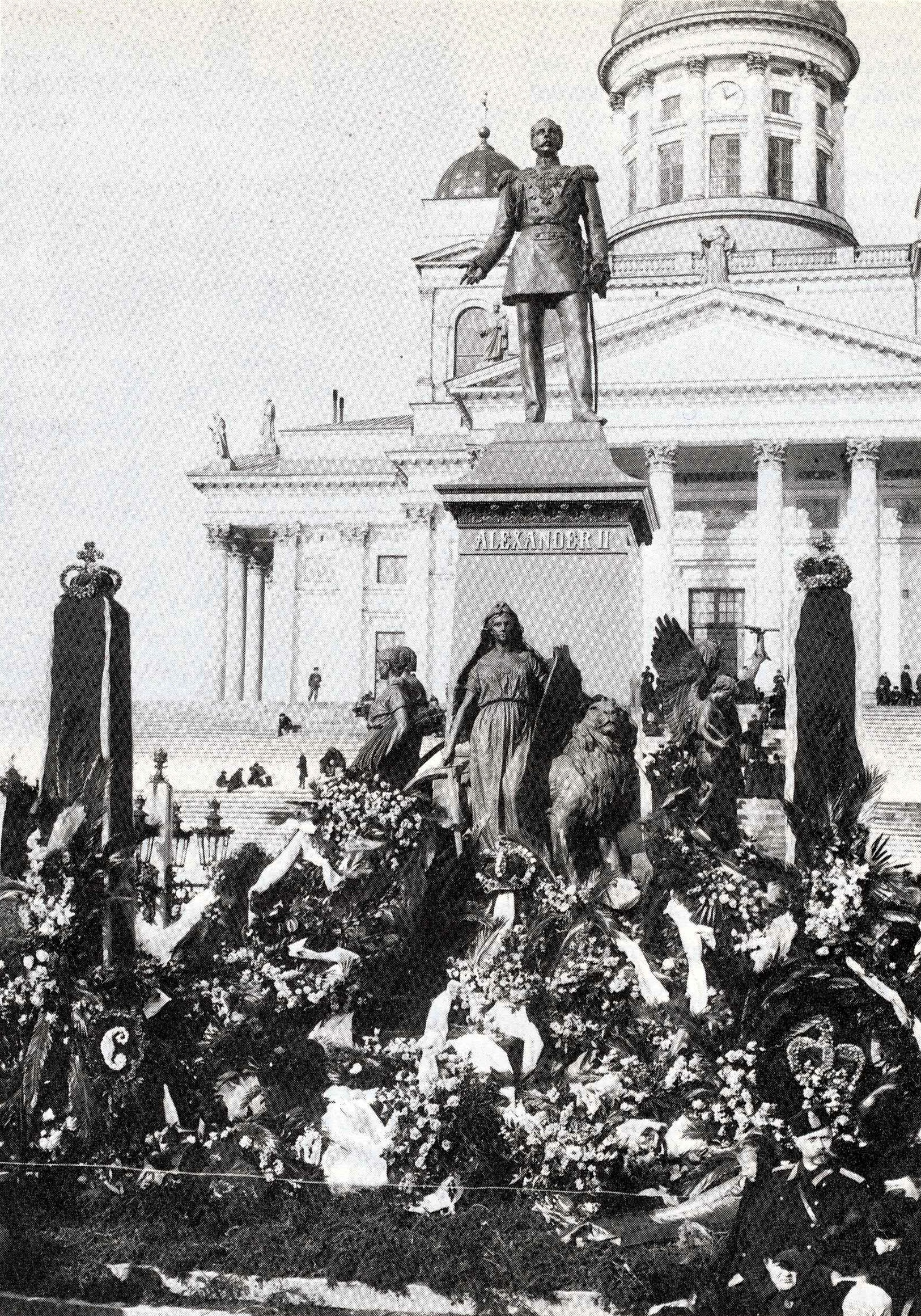 The statue of Alexander II in the Helsinki Senate Square decorated with flowers on the anniversary of the death of the czar 13 March 1899. By placing flowers there, the people protested the February manifest, and the sea of flowers increased daily.